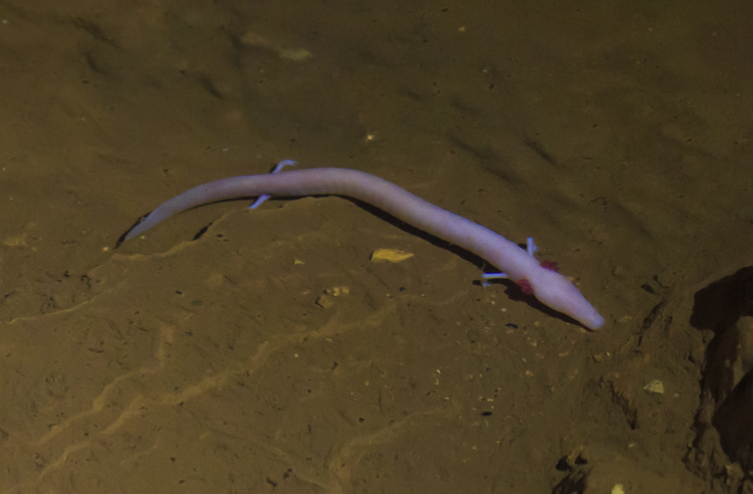 Olm in the pit Baredine.